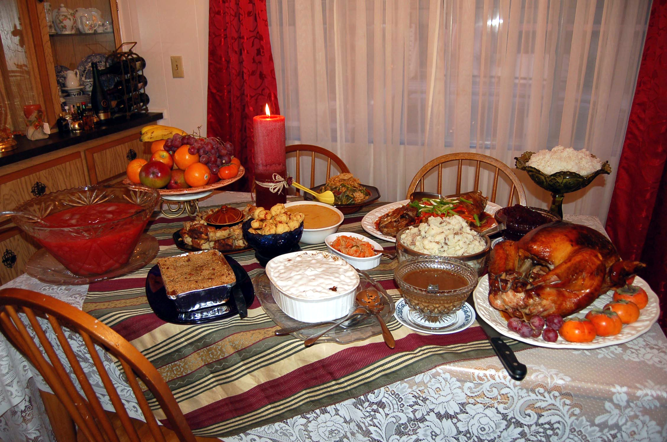 Tender, juicy roast turkey - the main attraction - with old-fashioned gravy, cranberry sauce, smashed potatoes, baked green beans, sweet and sour cod, steamed rice, achara (pickled green papaya relish), leche flan, pig in a blanket, apple crisp (from Yucaipa!), punch and 365 (that's a brand name) soda from Whole Foods!